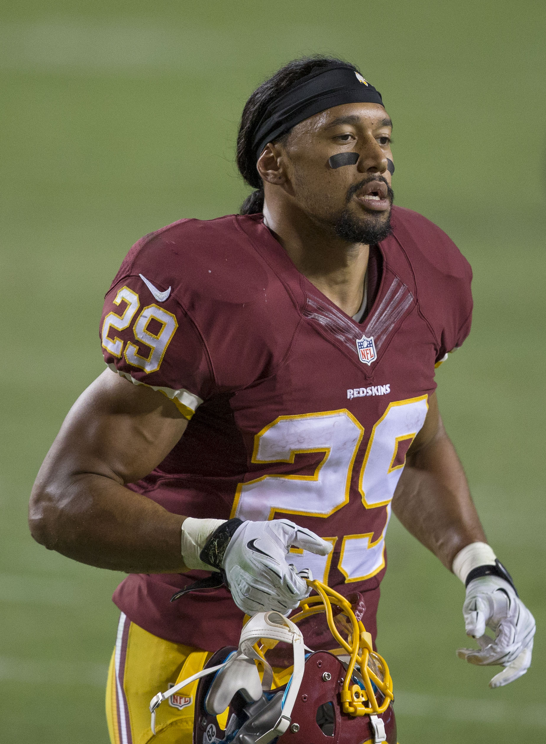 Washington Redskins running back, Roy Helu, in a game against the New York Giants on 9/25/2014.